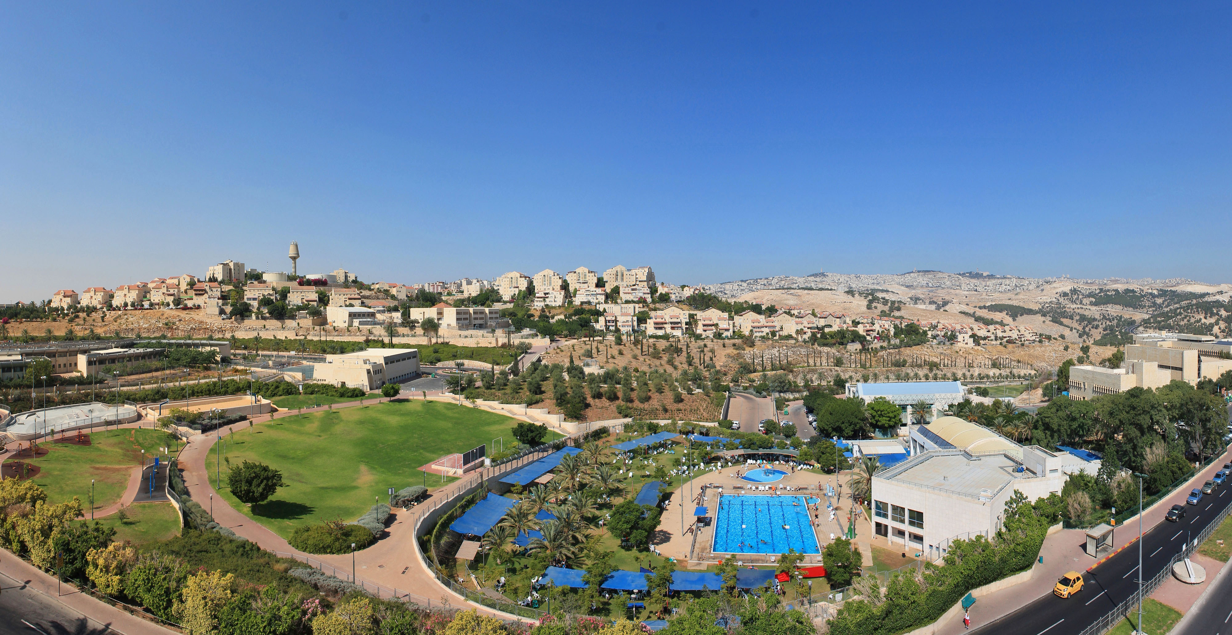 ma'ale adumim, swimming pool, view from Maale Adumim Cultural Hall